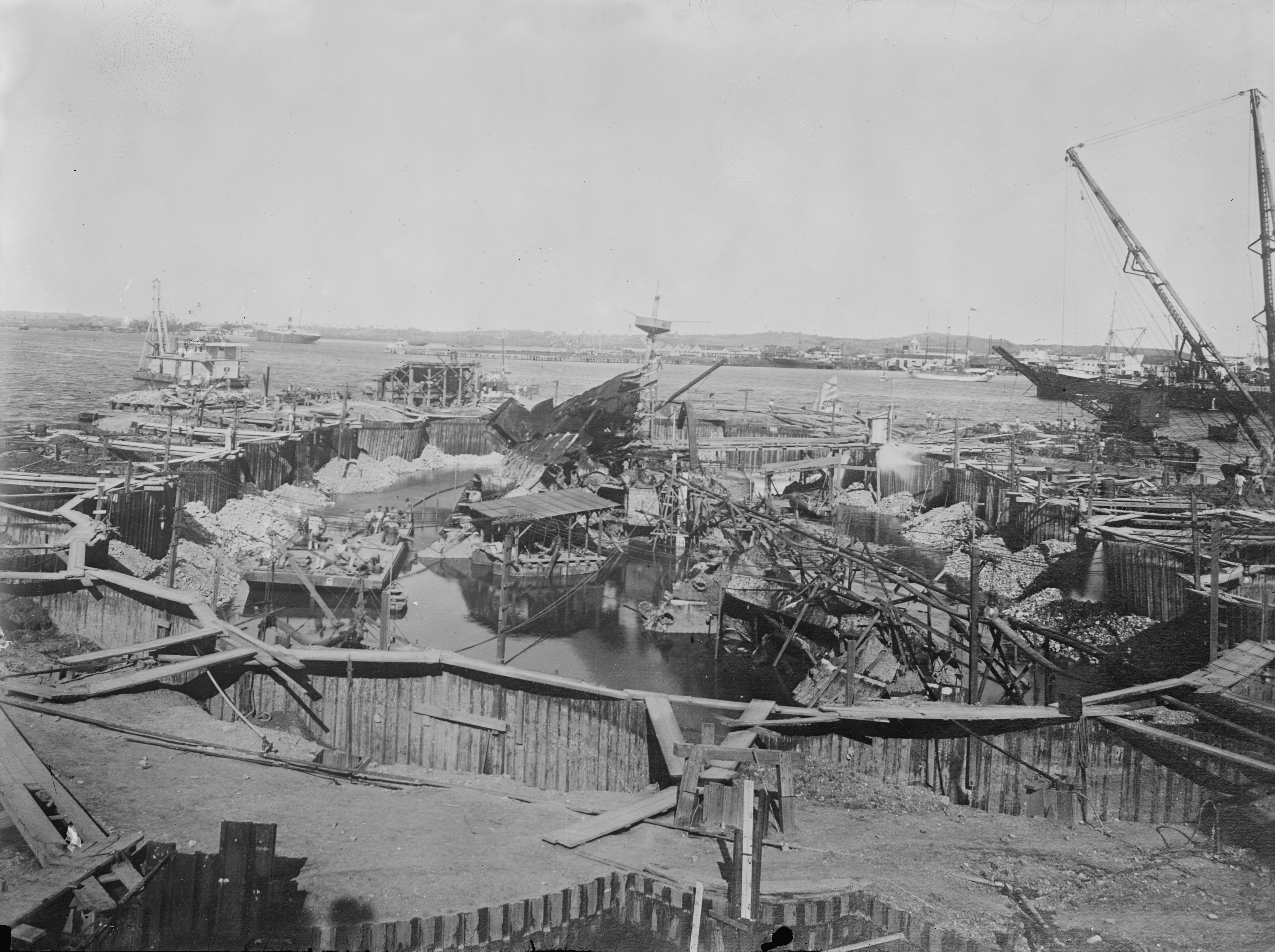 Caissons form a cofferdam around the wreck of the USS Maine in Havana Harbor, Cuba, in 1912.